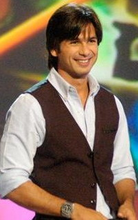 Indian actor Shahid Kapoor